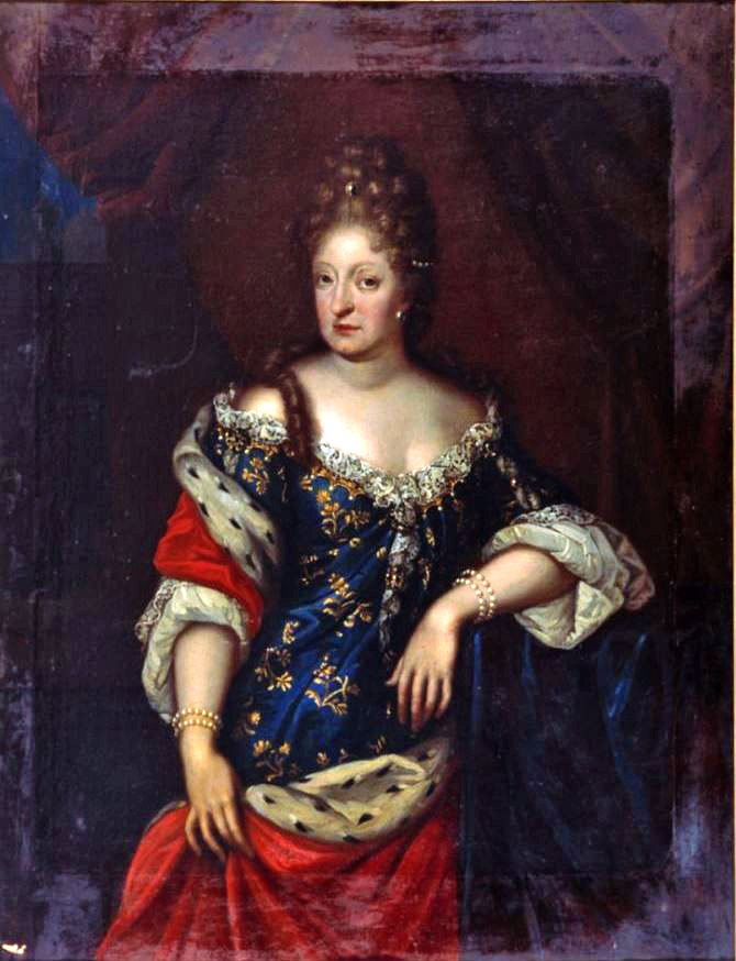 Elisabeth Juliane of Schleswig-Holstein-Sonderburg-Norburg (1634-1704), duchess of Brunswick-Wolfenbüttel as wife of Duke Anthony Ulrich